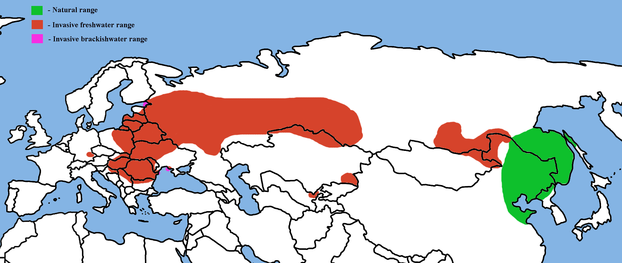 The range of the Chinese sleeper (Perccottus glenii). According to Reshetnikov A.N., 2010], Kvach 2012, Kutsokon et al. 2014, Reshetnikov & Schliewen 2013